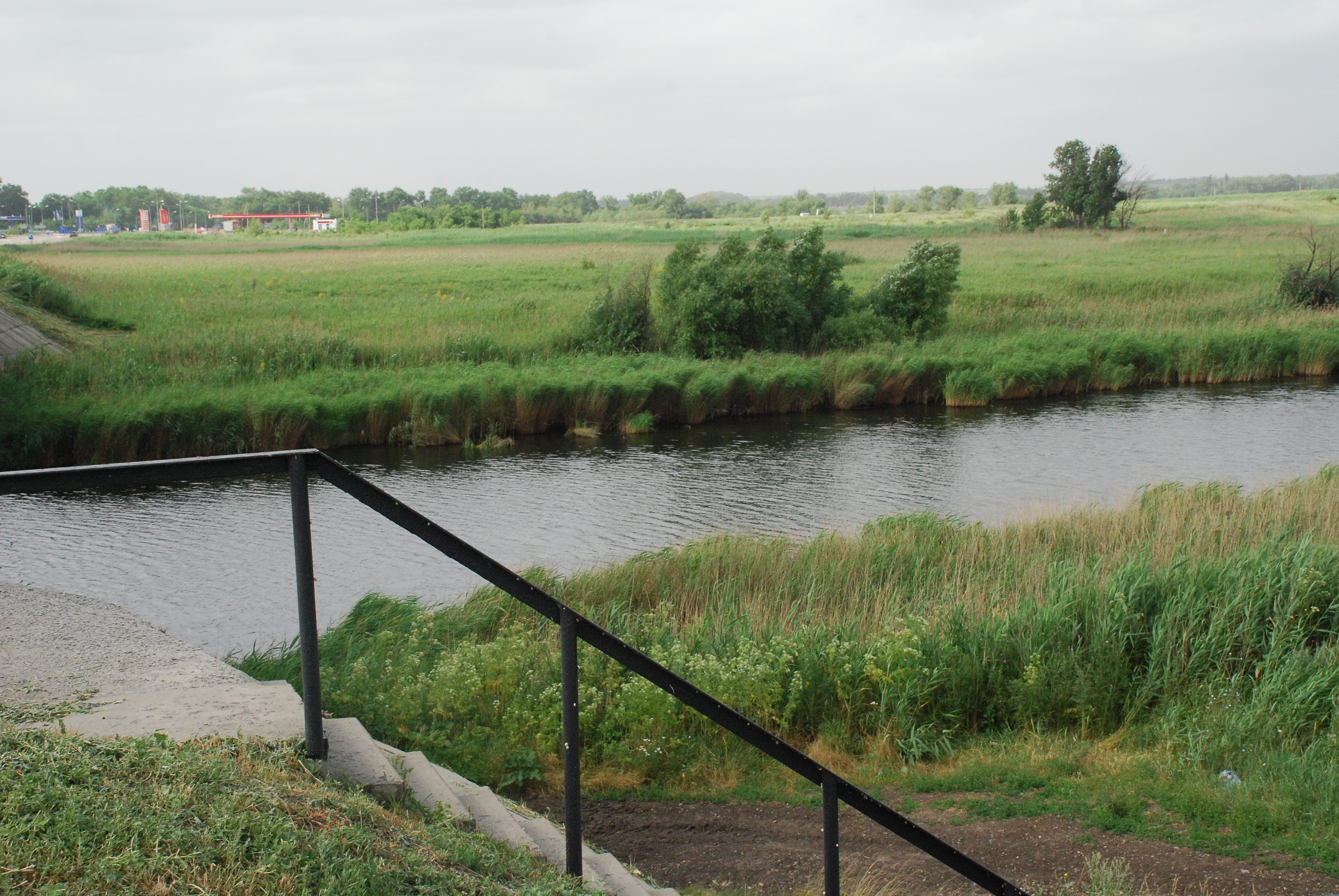 Elbuzd river in Rostov oblast.